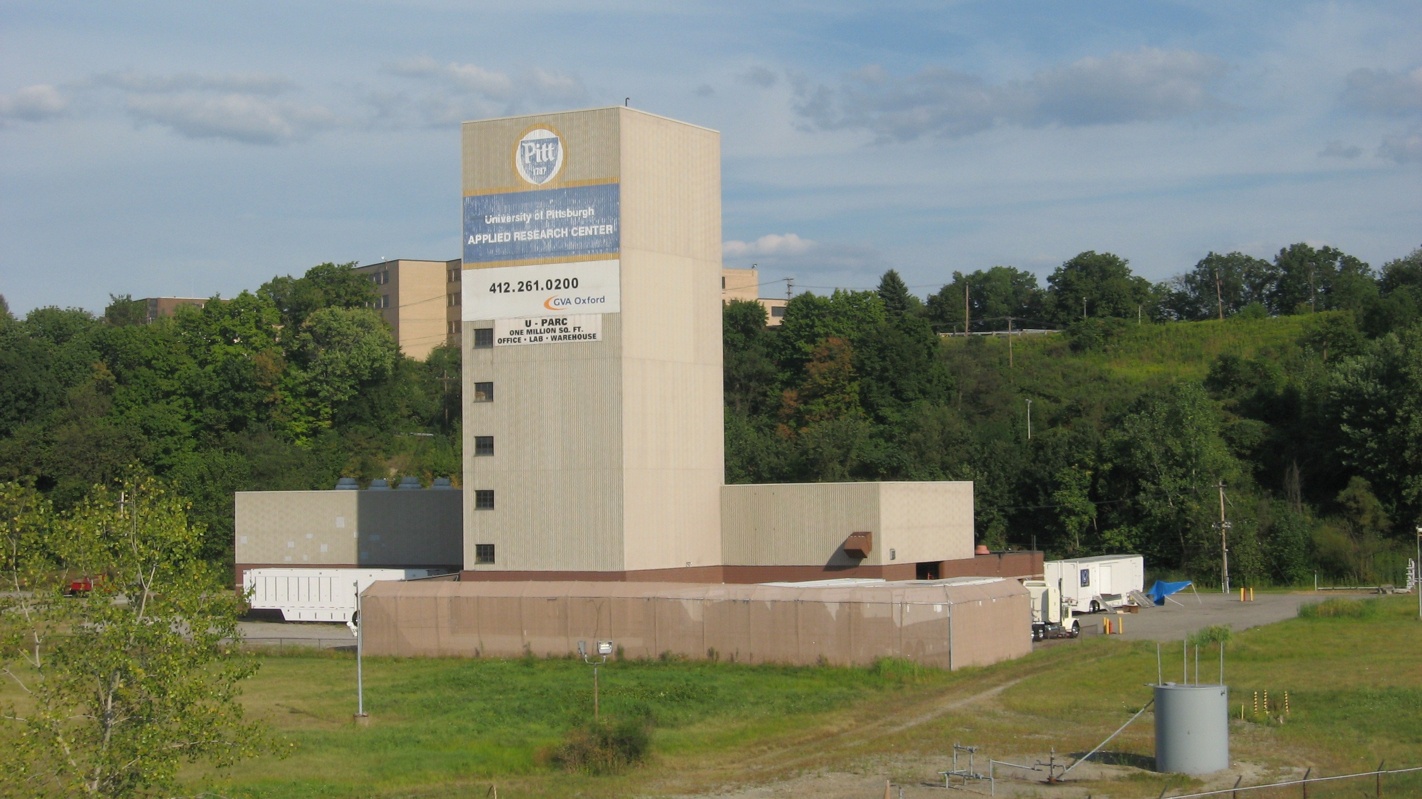 University of Pittsburgh Applied Research Center (U-PARC) in Harmar Township, Pennsylvania ([1]) ([2]) 40°32′38.6″N 79°50′0″W / 40.544056°N 79.833333°W